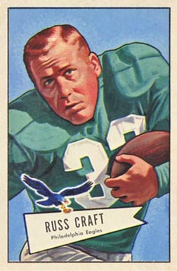 American football player Russ Craft on a 1952 Bowman Large card.